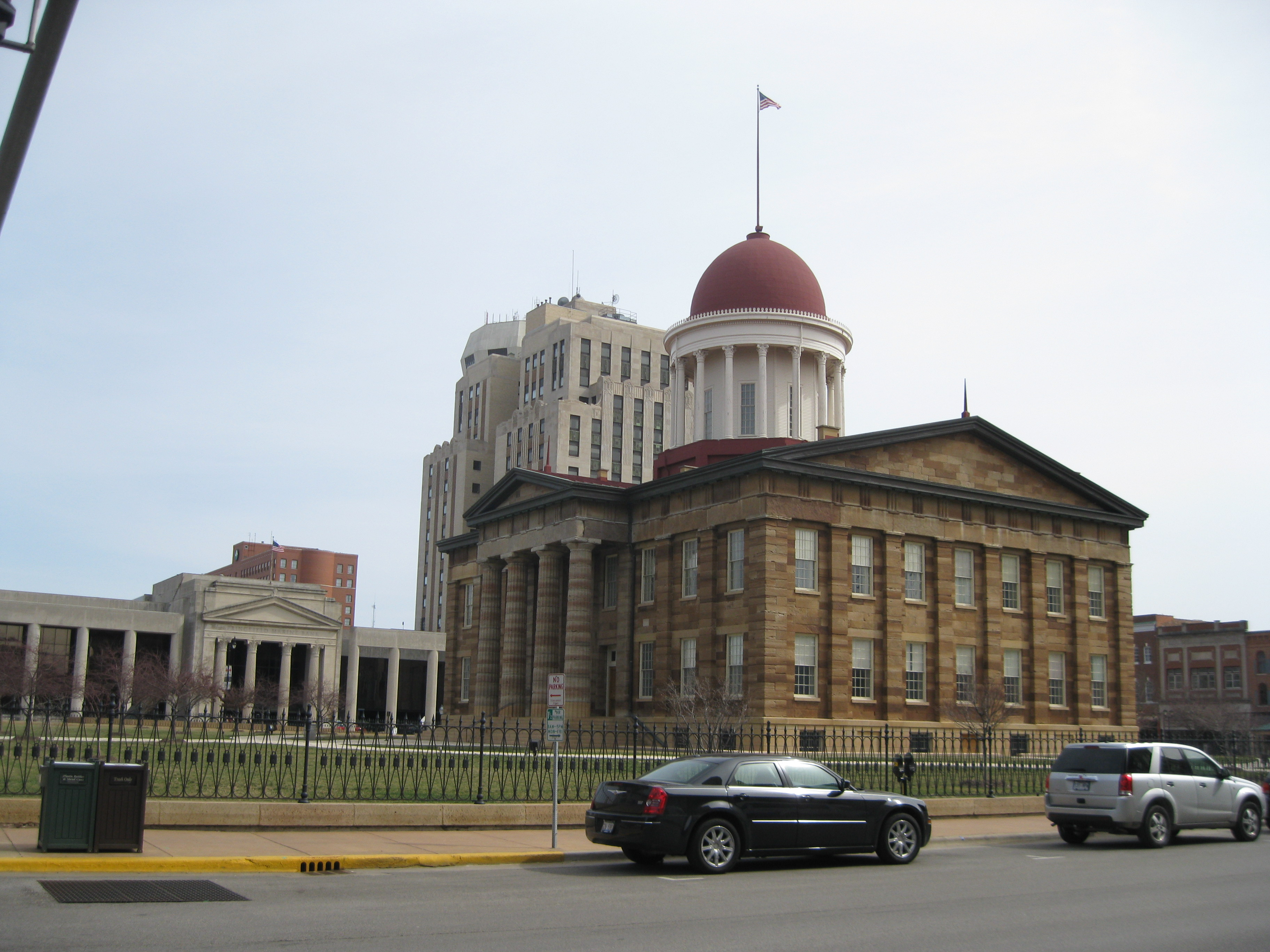 The old Capitol Building of Springfield, Illinois